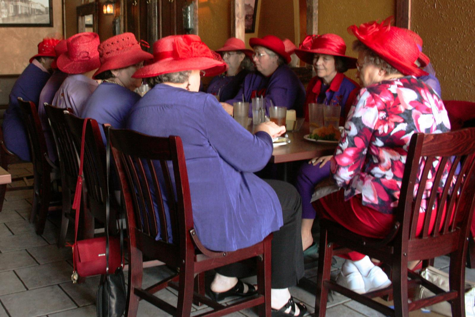 Red hats around a table.